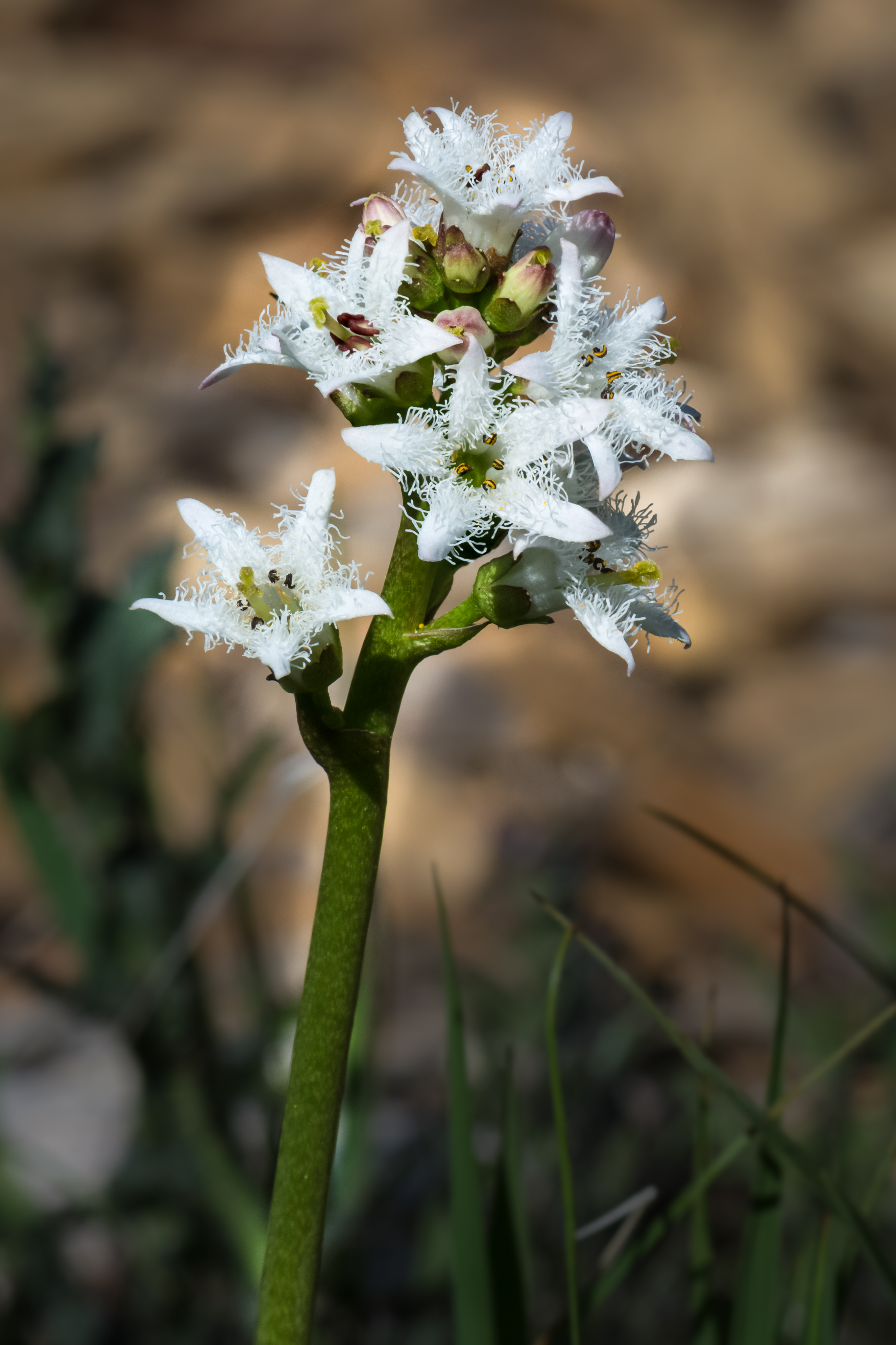 Menyanthes trifoliata near lake Spechtensee, Styria, Austria